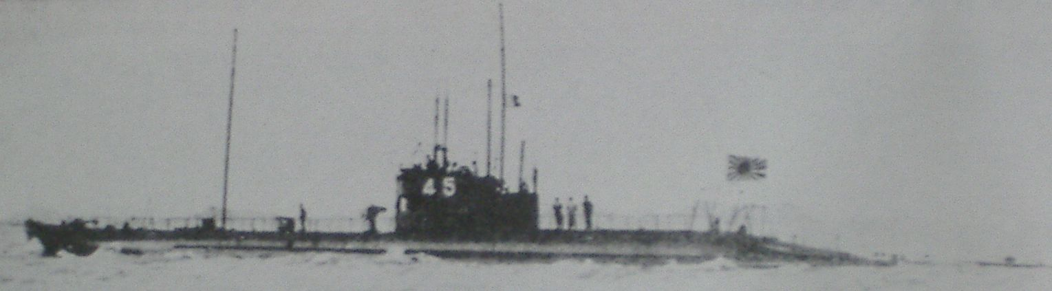 HIJMS Ro-26